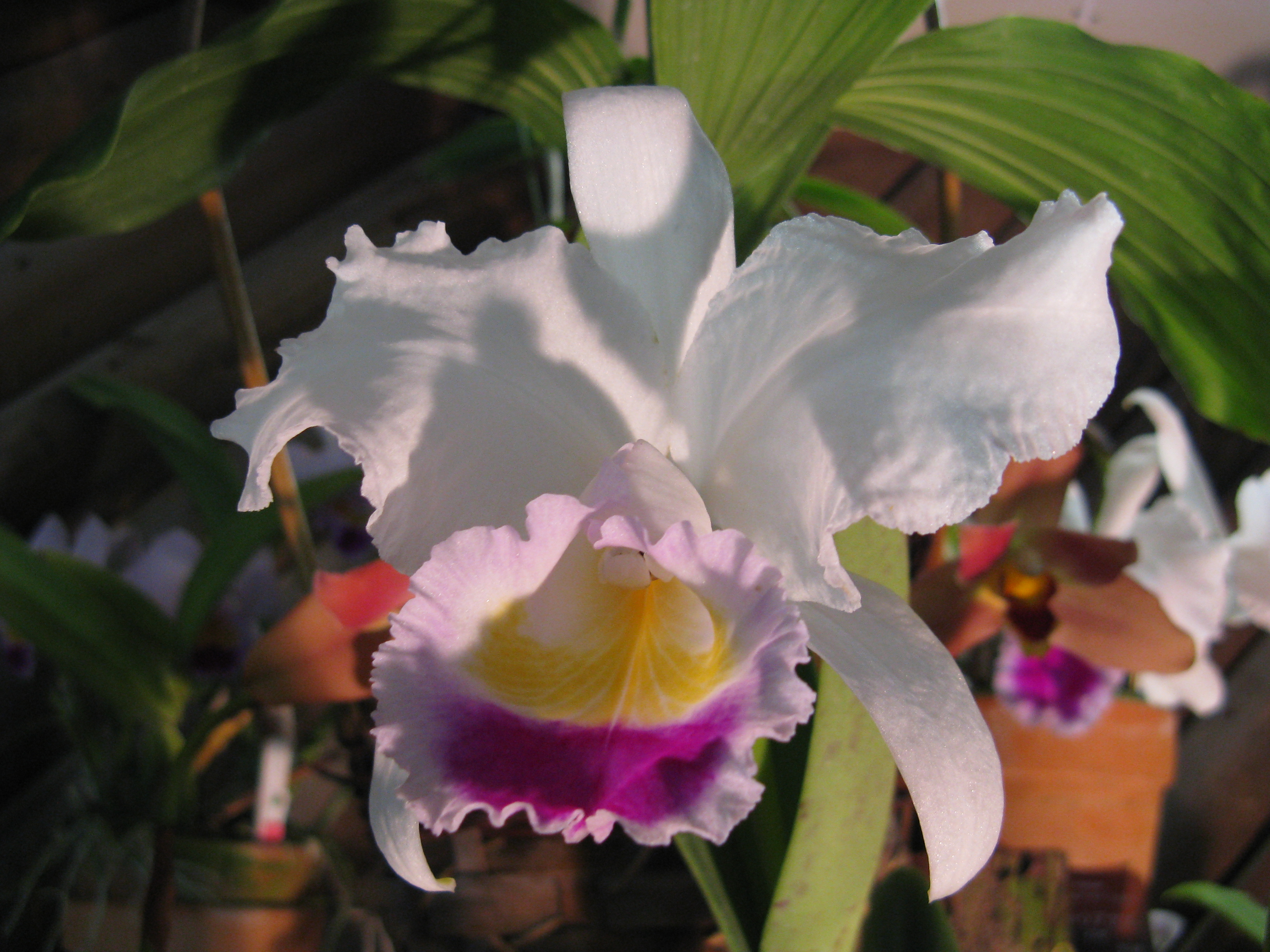 Cattleya trianae Place:Osaka Prefectural Flower Garden,Osaka,Japan